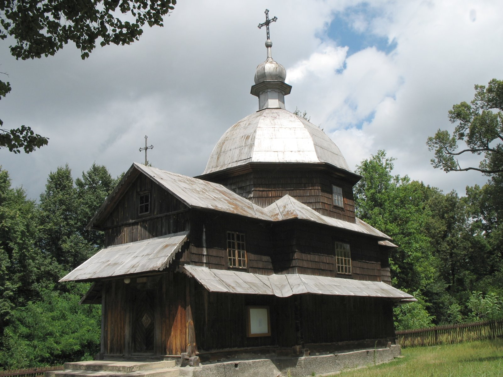 St. Nicholas in Radruż, Greek Catholic church (now Roman Catholic church)